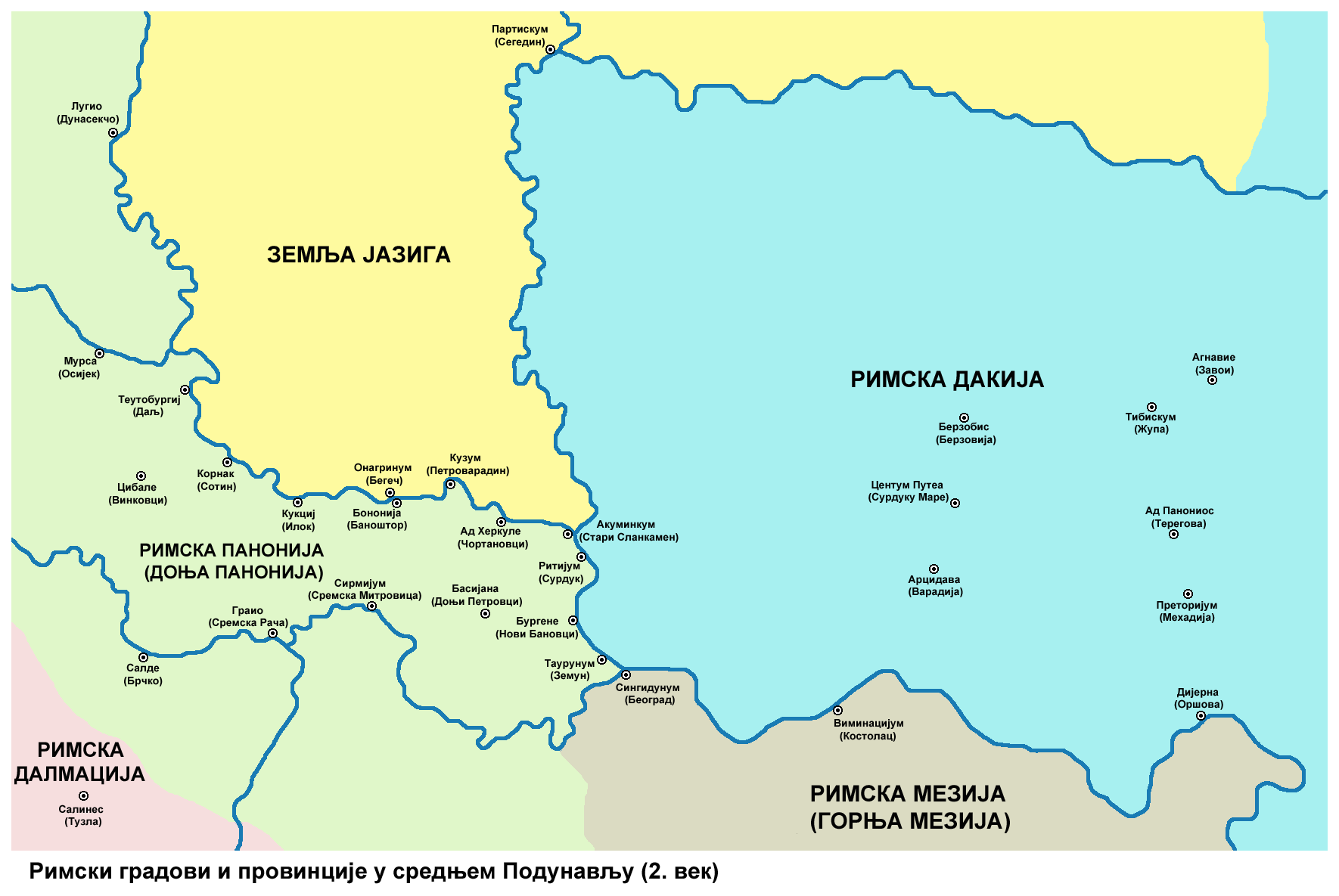 Roman cities and provinces in middle Danube area (2nd century).